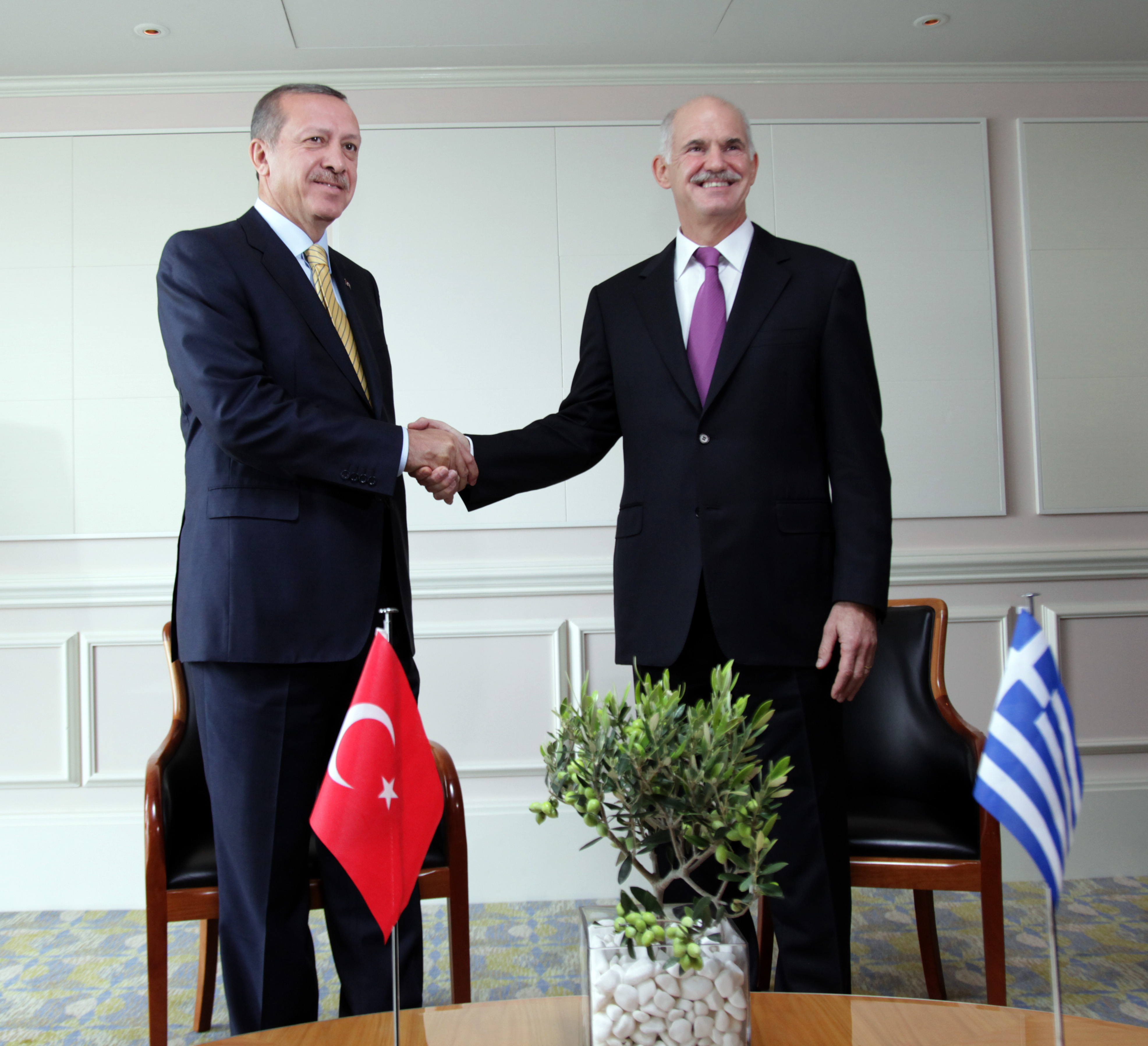 Turkish Prime Minister Recep Tayyip Erdogan (L) shakes hands with his Greek counterpart, George Papandreou before their private meeting in the resort of Vouliagmeni near Athens on October 22, 2010. The two Prime ministers met in the frames of the Mediterranean Climate Change Initiative conference in Vouliagmeni.